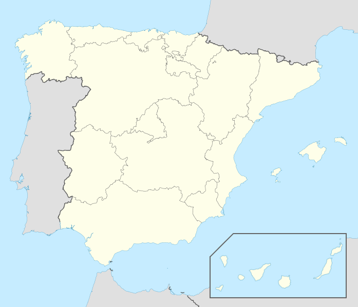 Location map of Spain Equirectangular projection, N/S stretching 130 %. Geographic limits of the map: * N: 44.4° N * S: 34.7° N * W: 9.9° W * E: 4.8° E